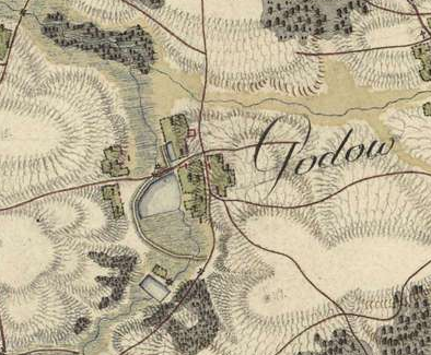 Godów on an austrian map of Westgalicia about 1802